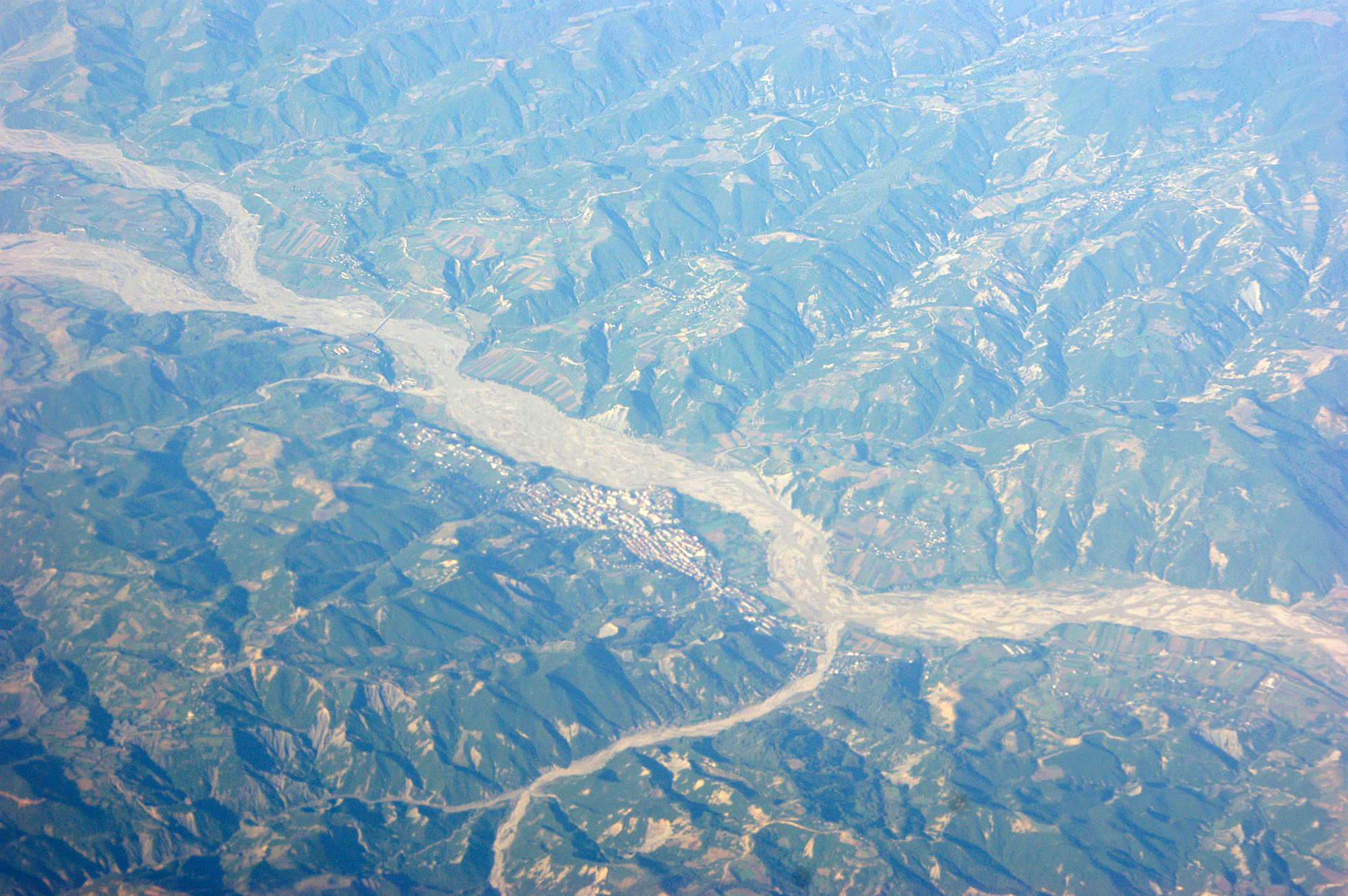 Gramsh in Southern Albania from the air